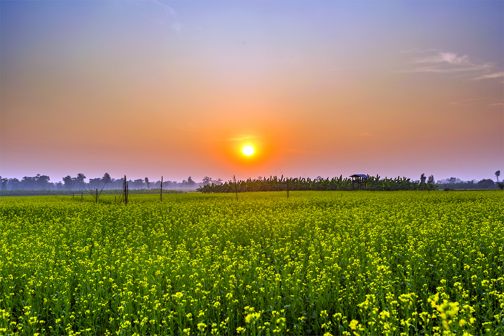 The sunset in mustard field in terai